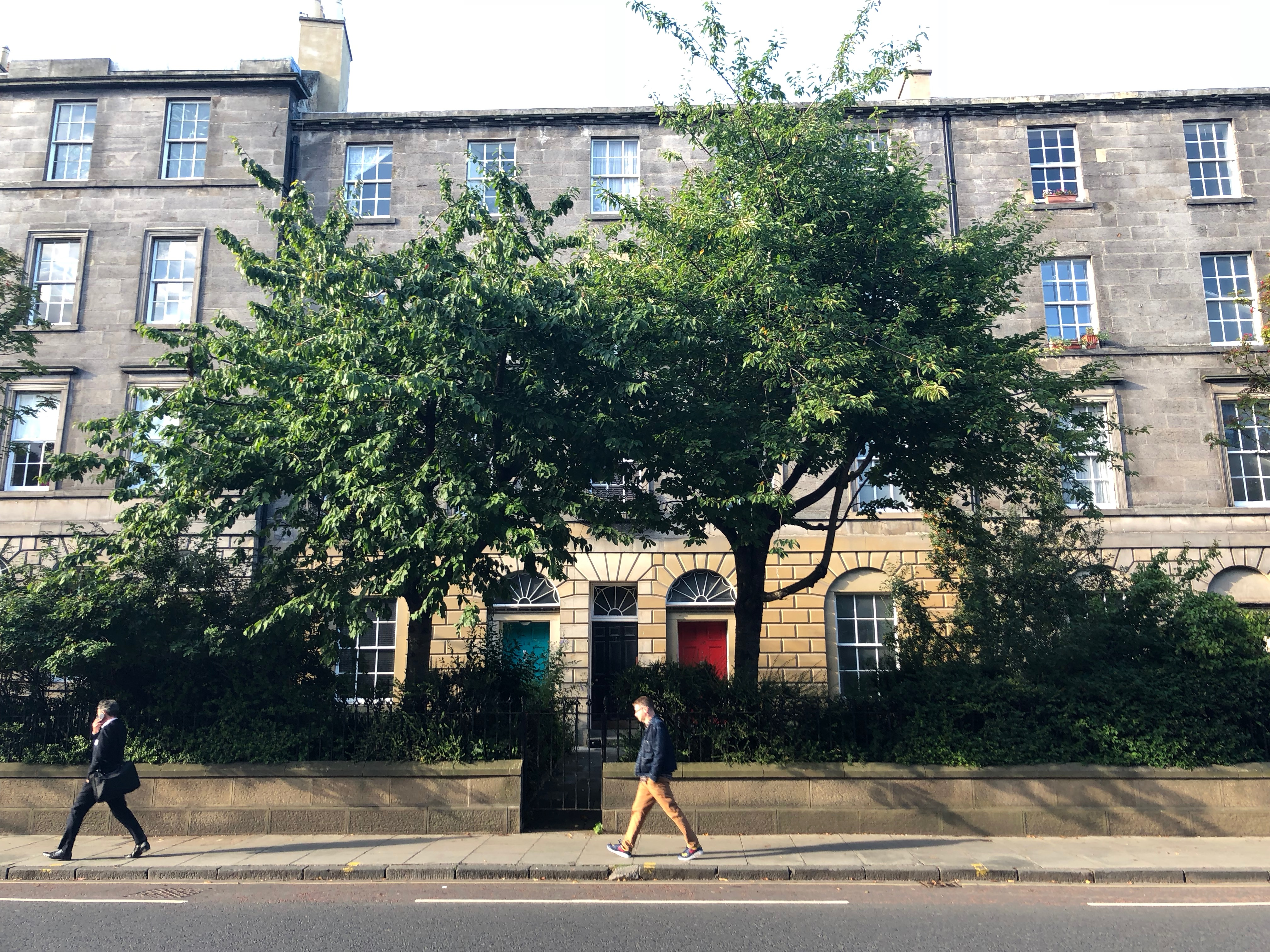 Edinburgh, 10 - 14 Lauriston Place Wikidata has entry Q17795005 with data related to this item.